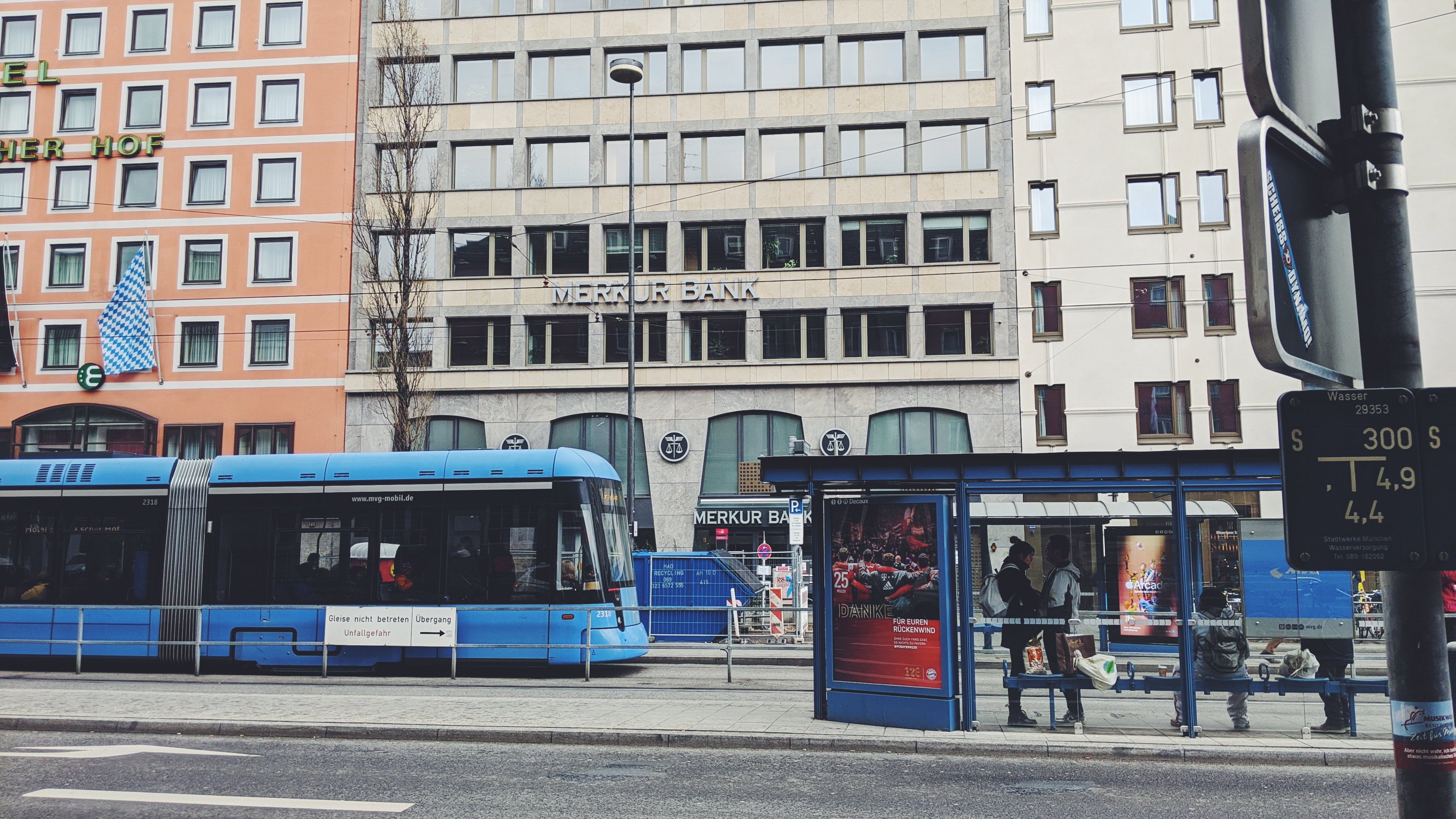 Head office of MERKUR PRIVATBANK in Munich.